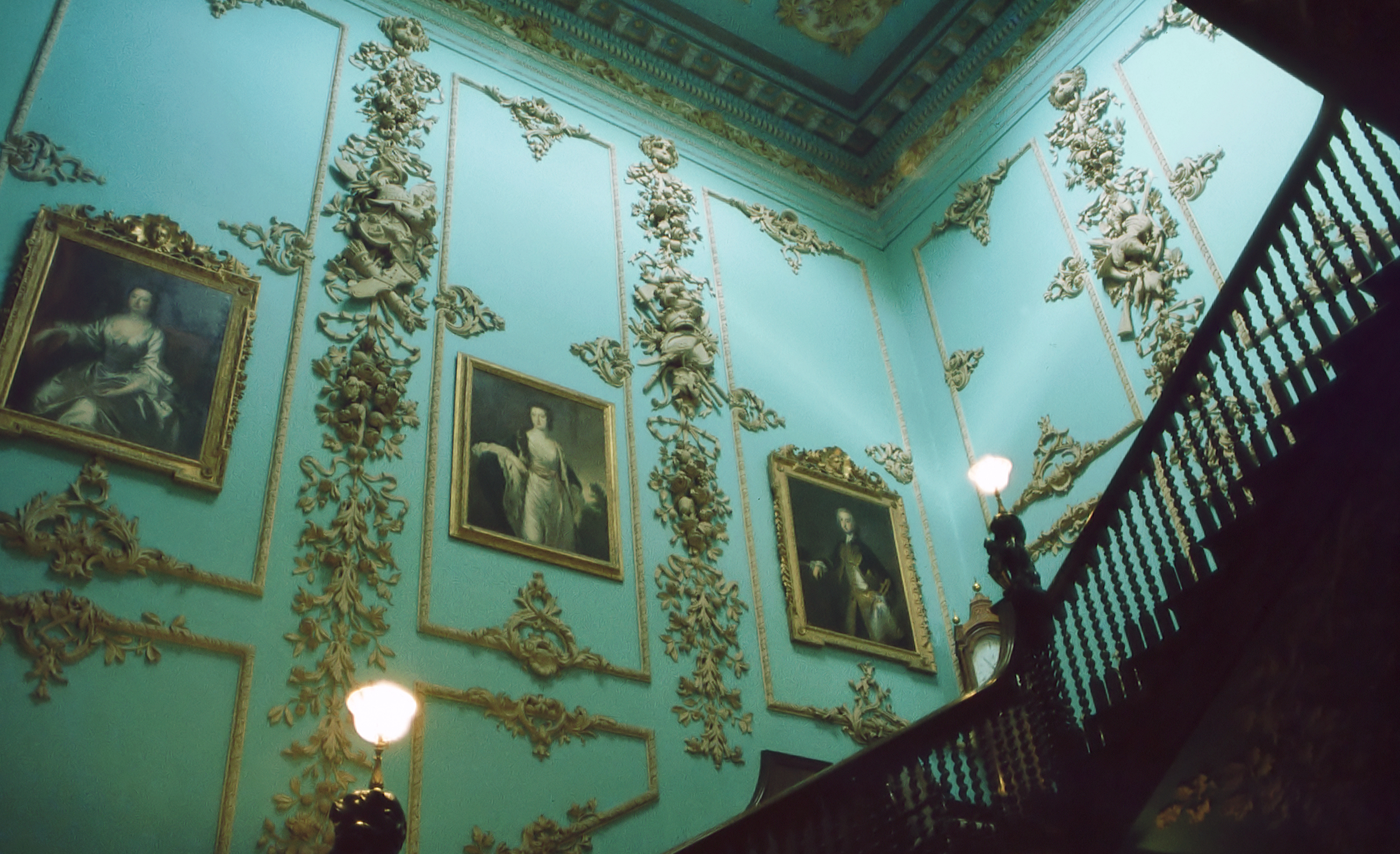 Powderham Castle - Staircase Hall, South Devon / England